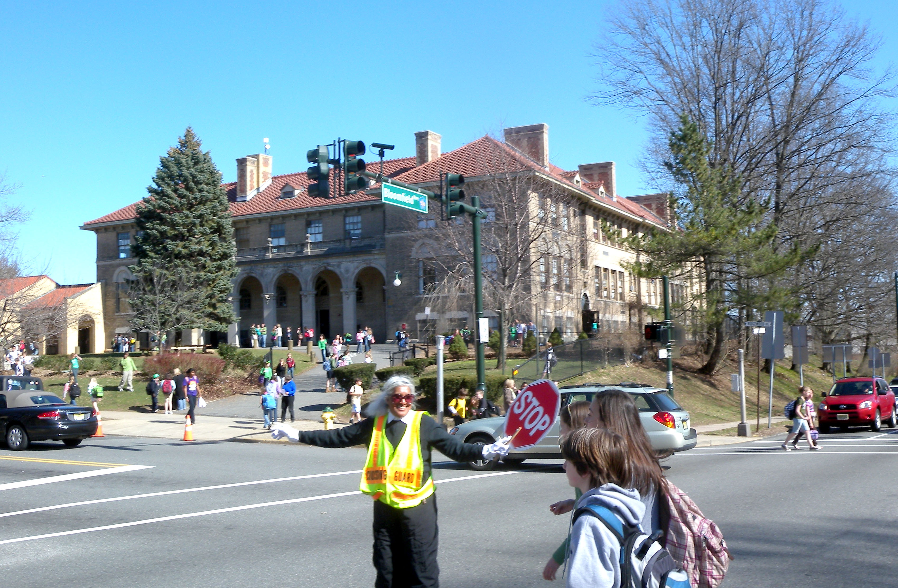 Looking east as crossing guard helps children cross Bloomfield Avenue on a sunny early afternoon.